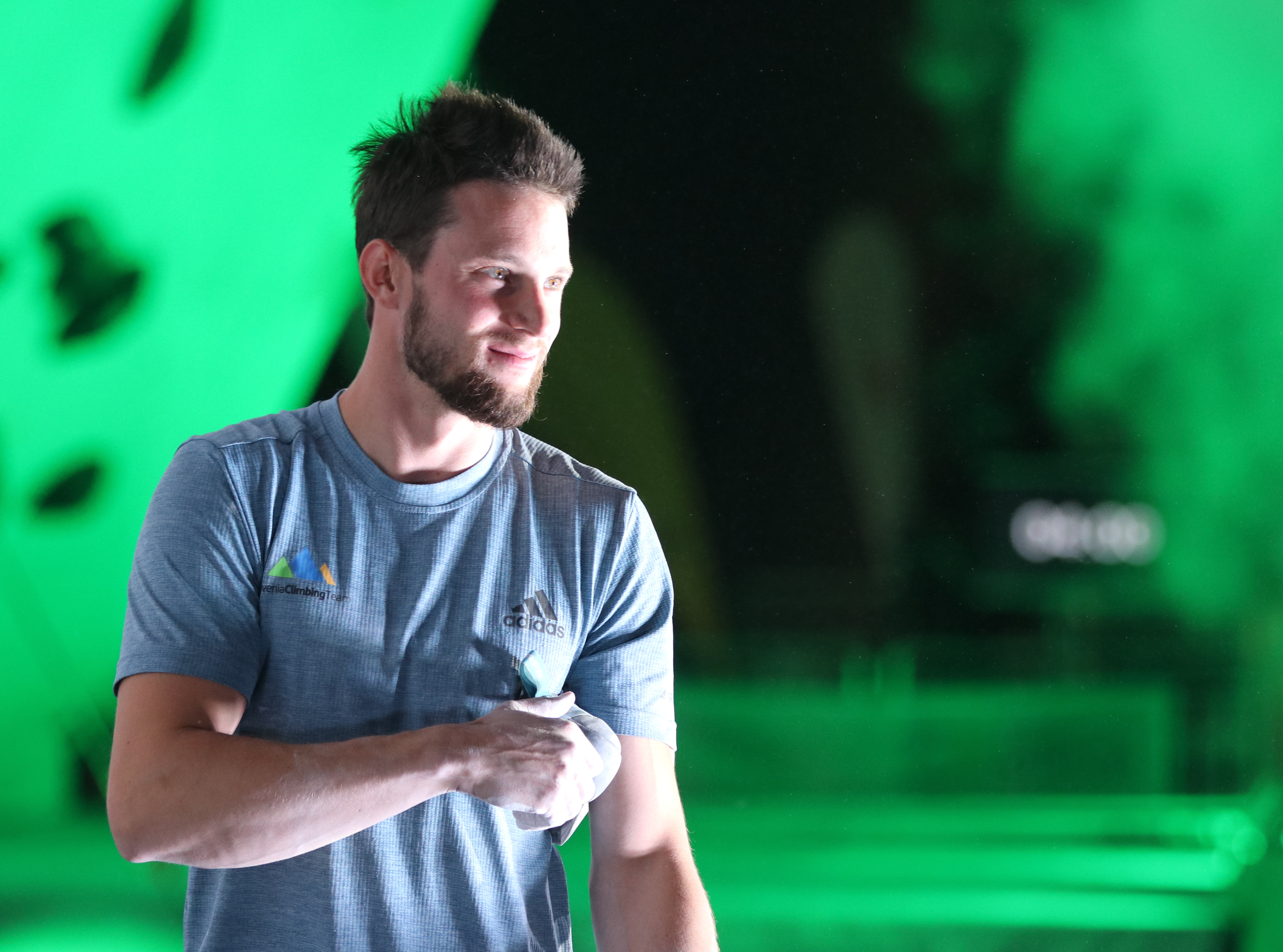 Boulder Worldcup 2018, Final Event in Munich 2018-08-18, Finals